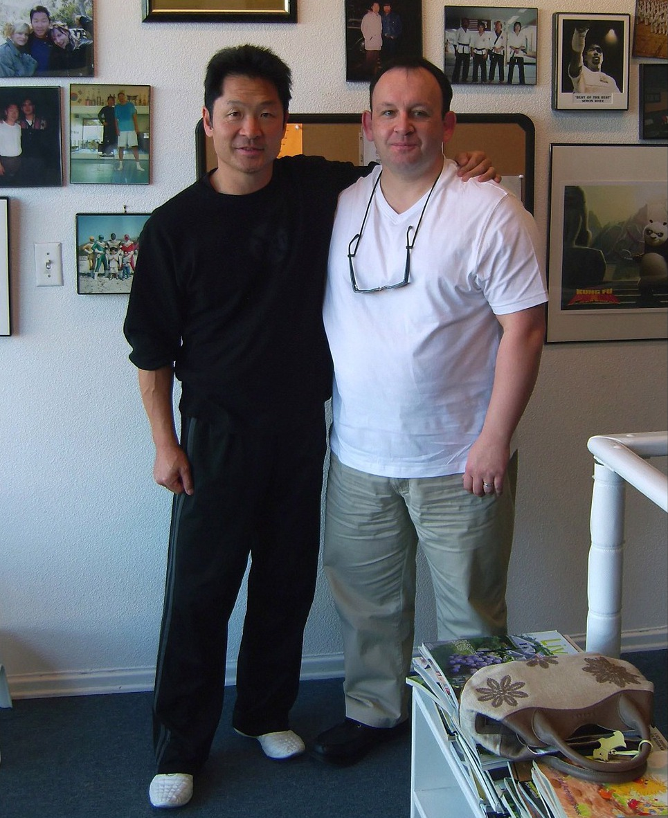 Barry Cook and Simon Rhee